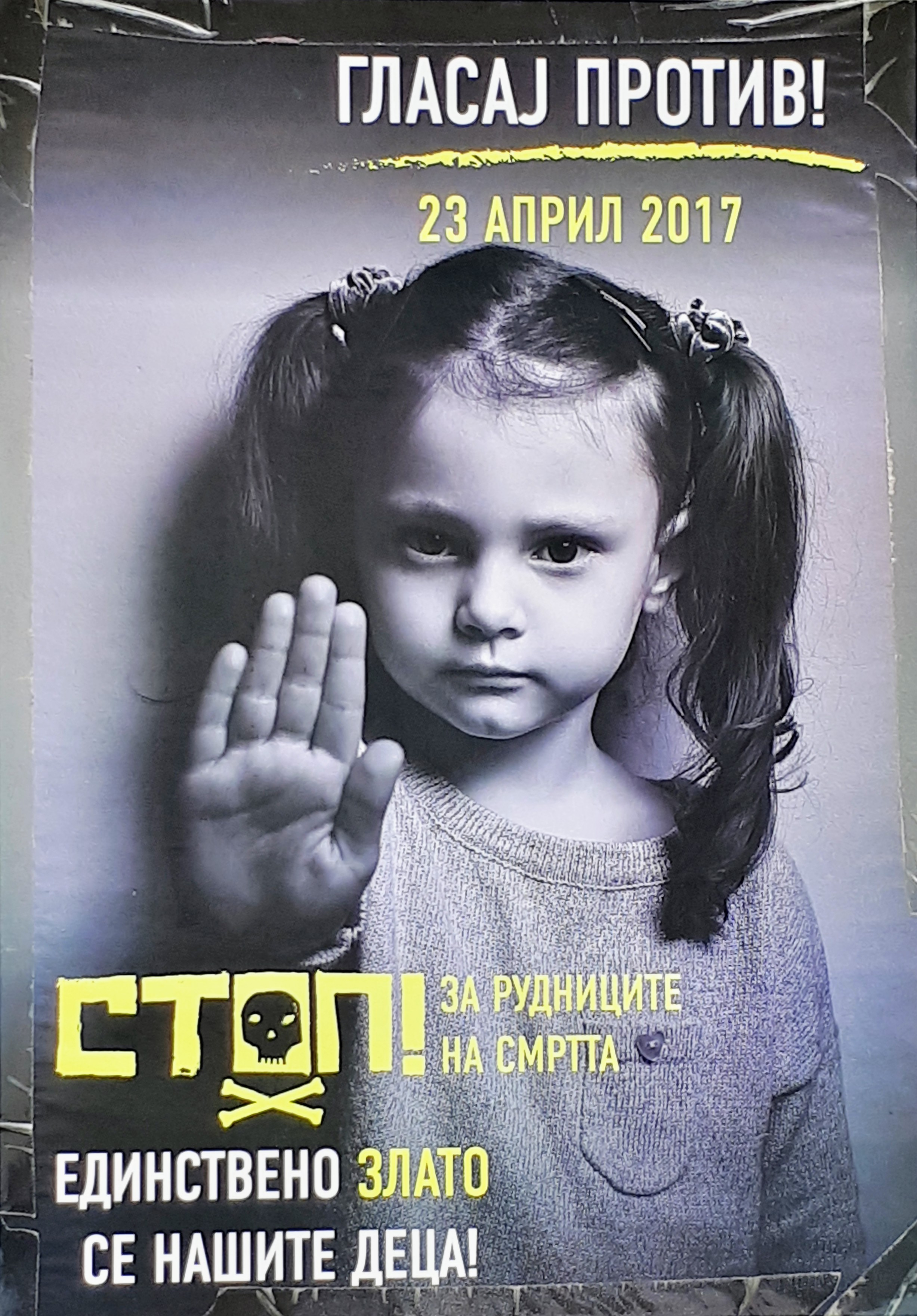 Poster in the campaign again the opening of new mines in Bojmija